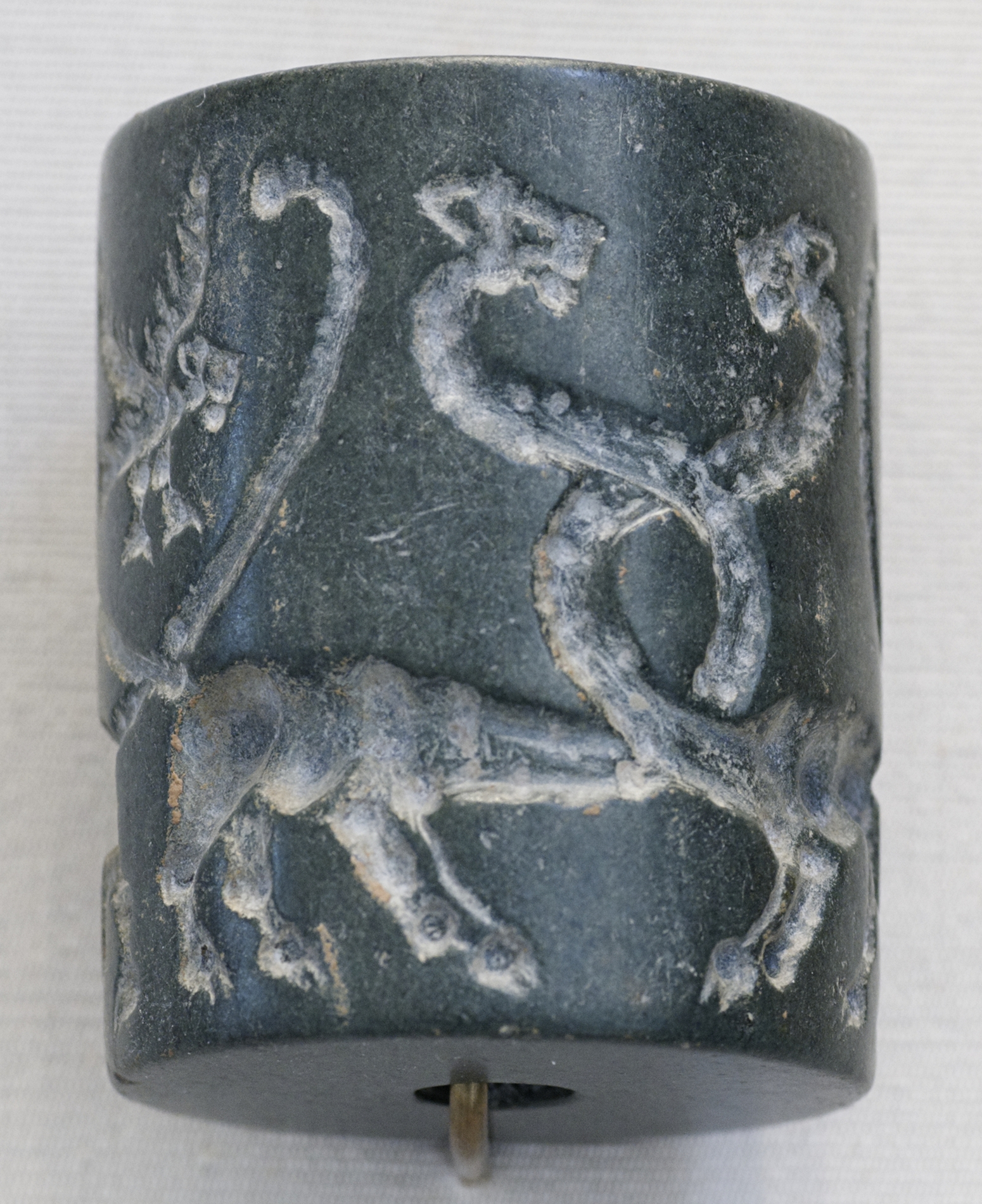 Jasper cylinder seal: monstrous lions and lion-headed eagles, Mesopotamia, Uruk Period (4100 BC–3000 BC).